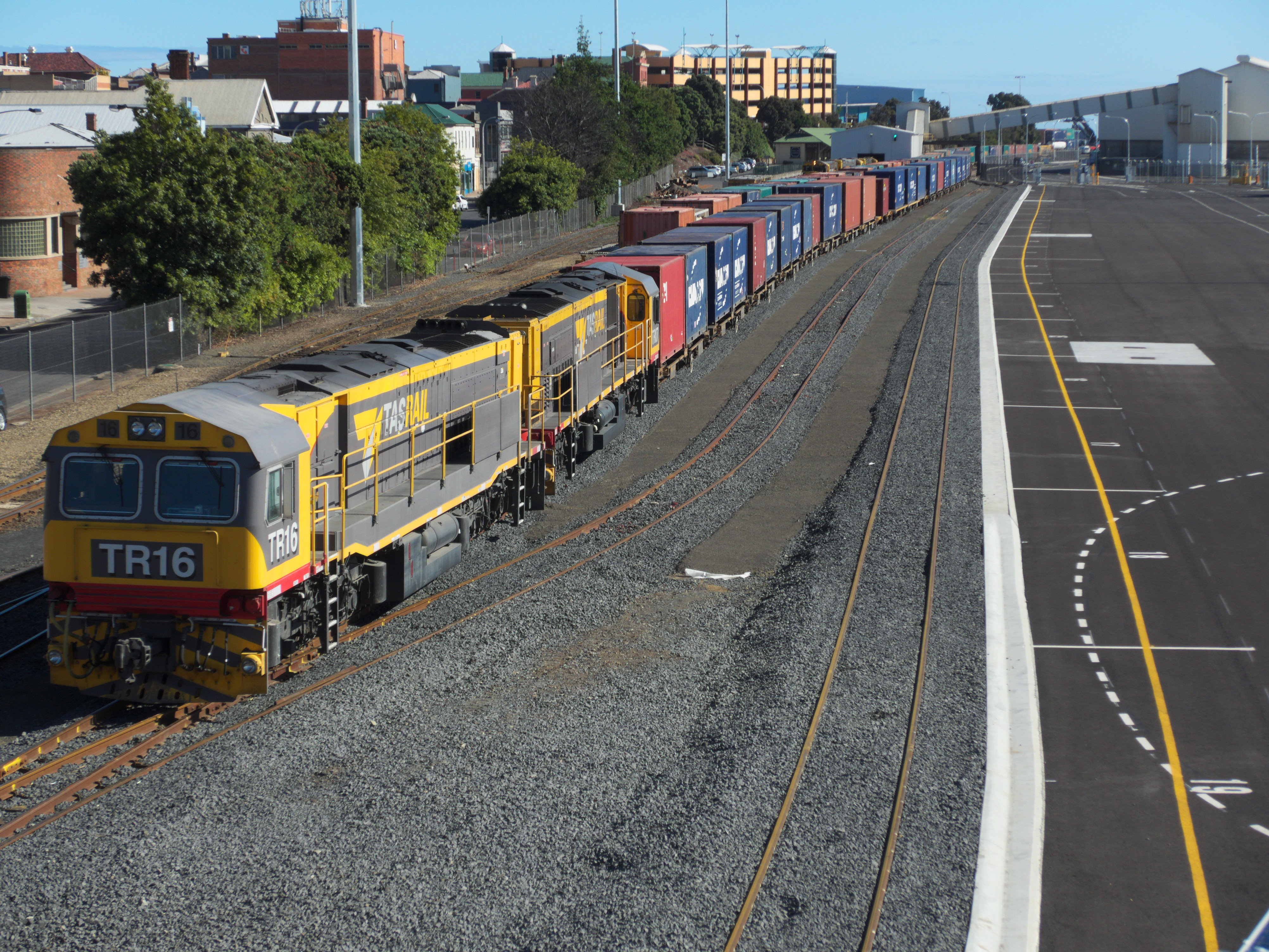 A Tasrail container train at the Port of Burnie, led by locomotive TR16. See also File:Tasrail-TR16-20160106-001.jpg.